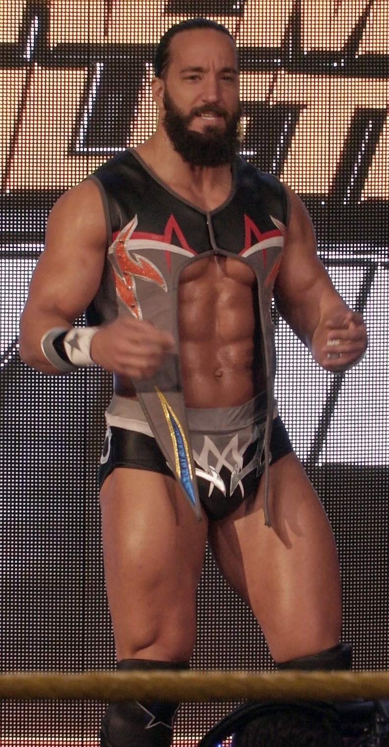 Professional wrestler Tony Nese during the WWE Axxess event